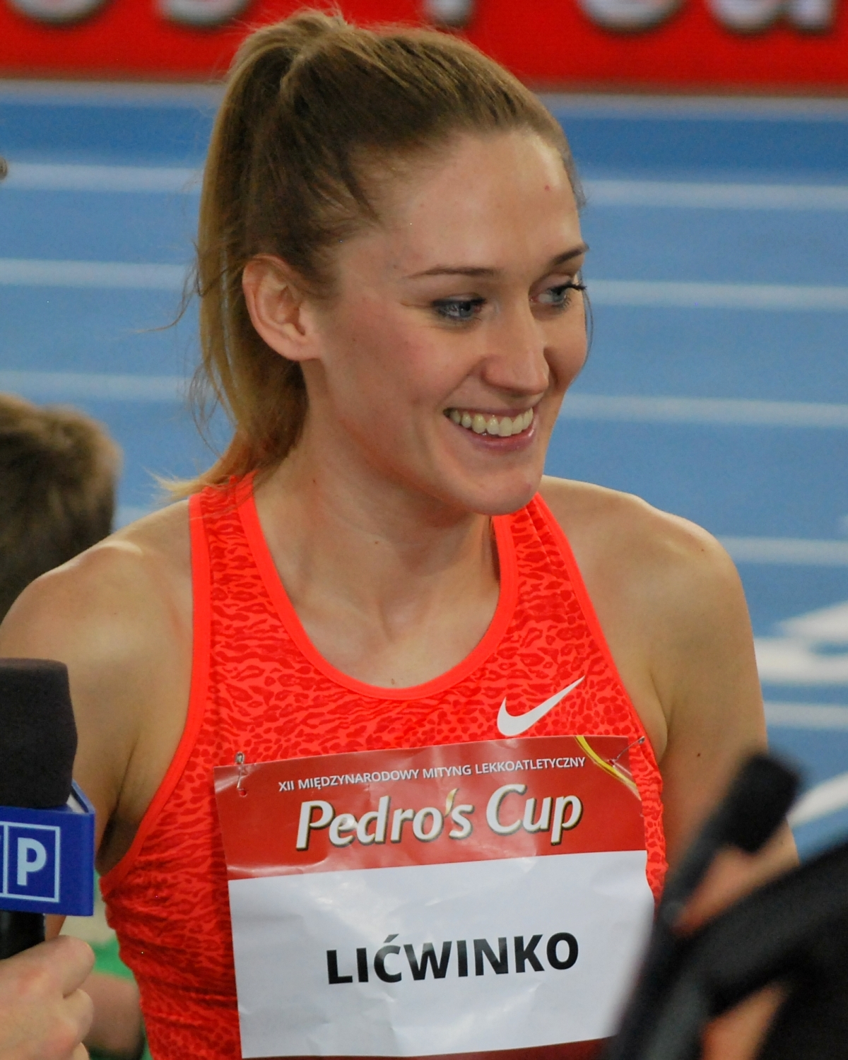 Kamila Lićwinko, high jumper from Poland, Pedro's Cup Łódź 2016